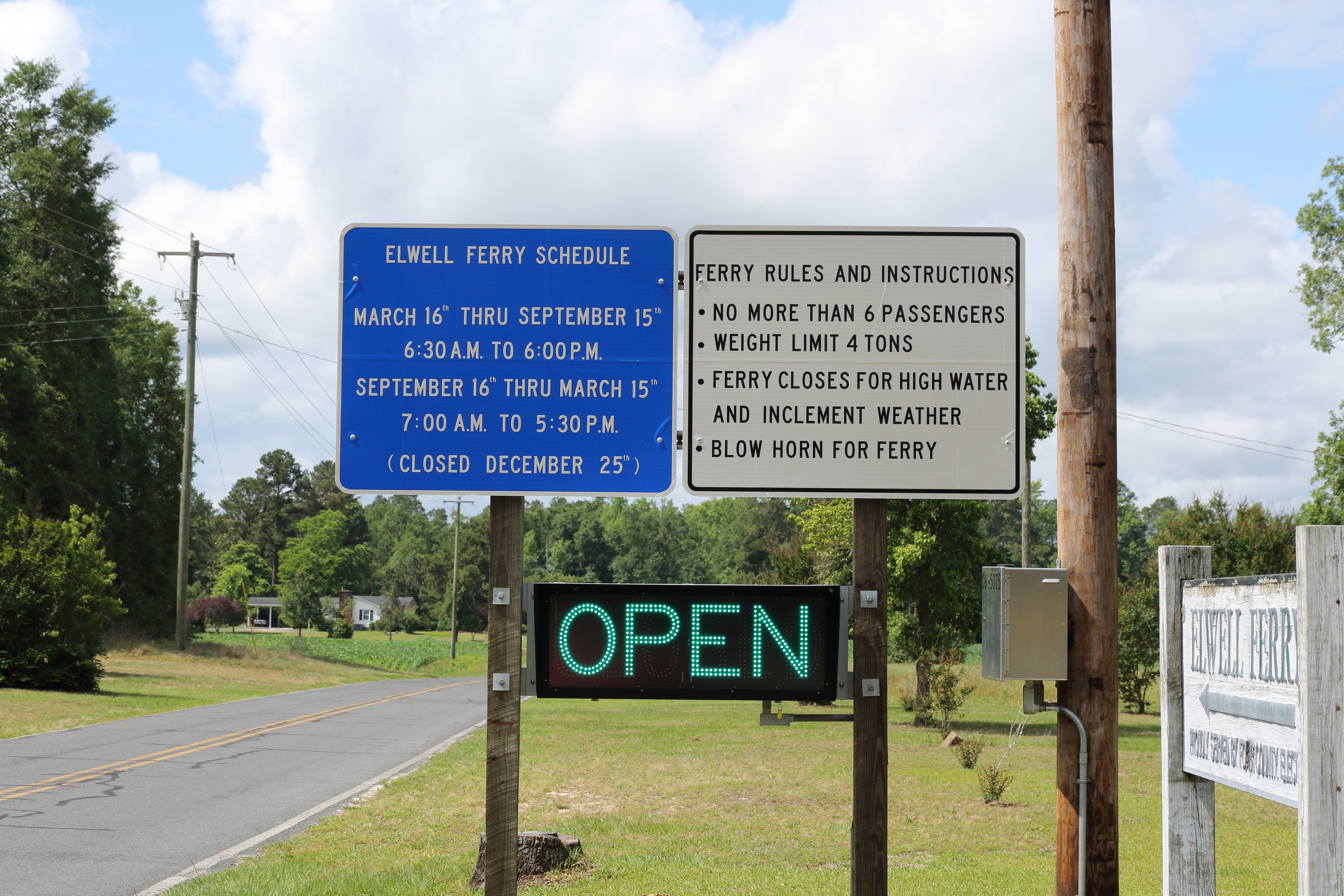 Sign on the east bank of the Cape Fear river, showing if ferry is operating and the rules.